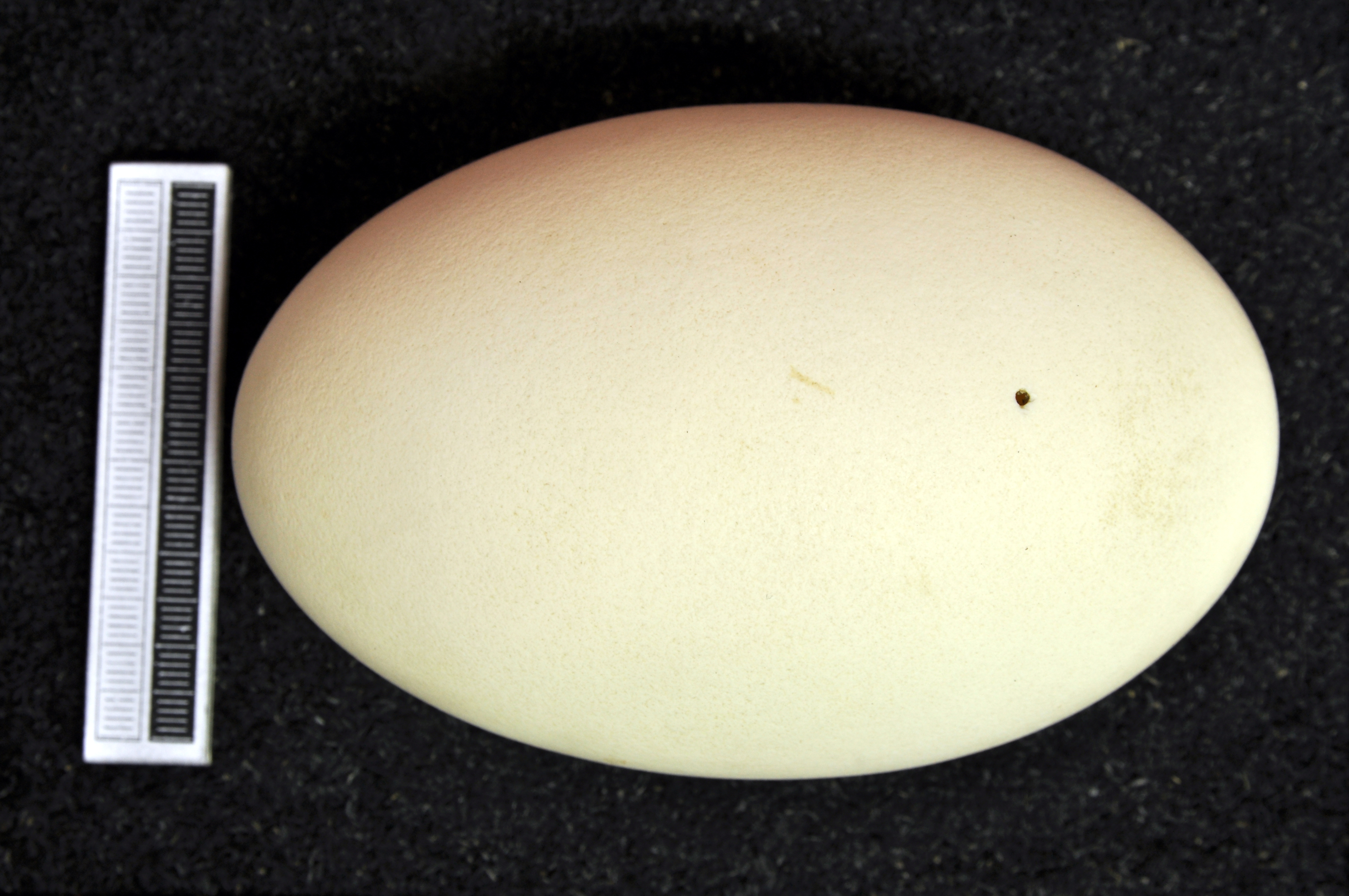 Zwergschwan Cygnus bewickii , egg, Coll. Museum Wiesbaden